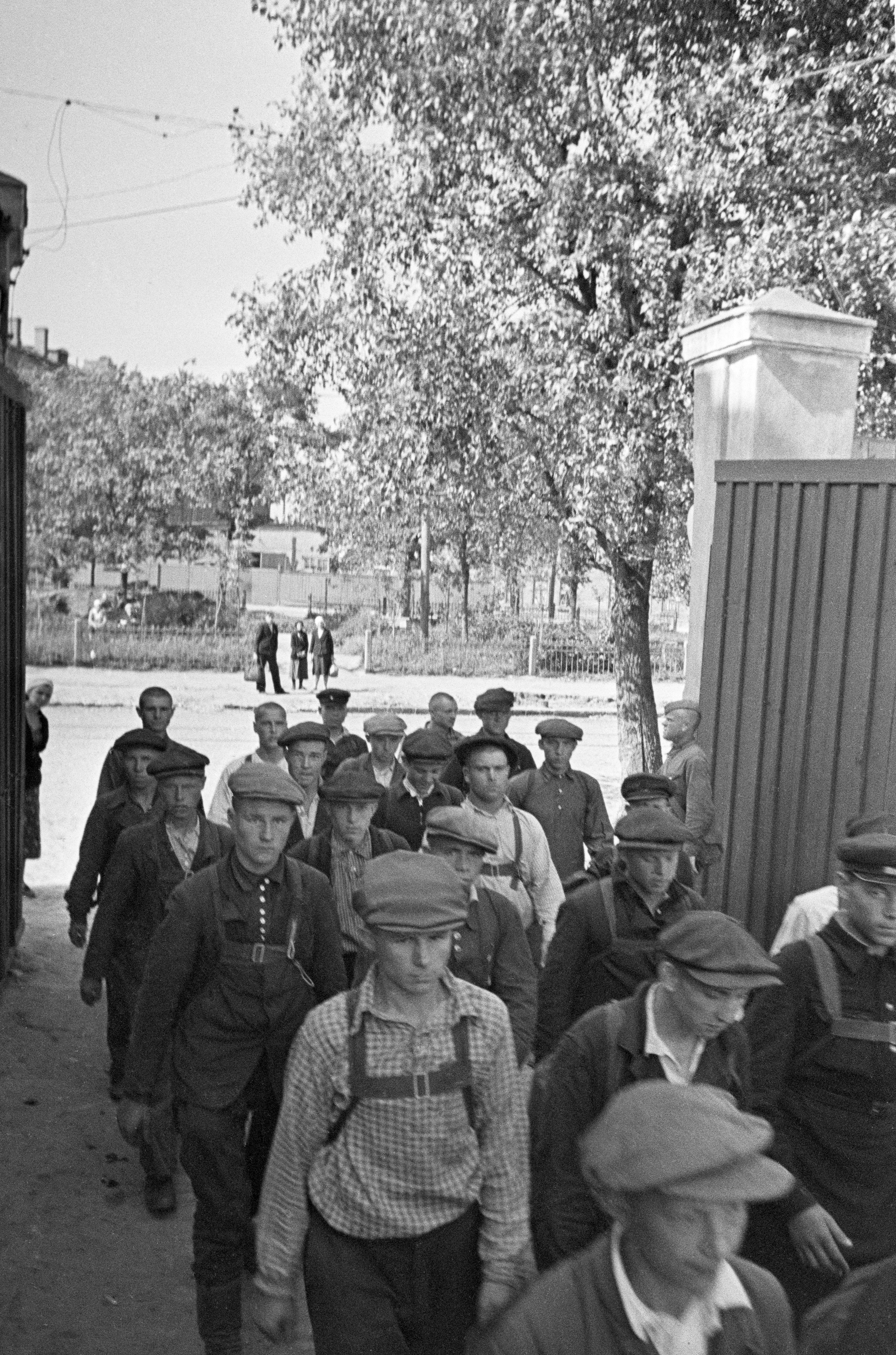 “Recruits entering Voroshilov Barracks”. June 23, 1941. Enlisting for the front. Recruits entering Voroshilov Barracks in Moscow.